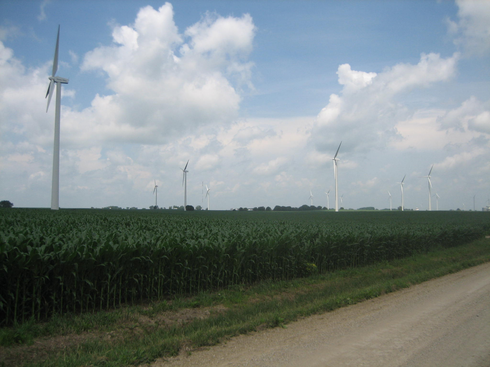 Mendota Hills Wind Farm, near Paw Paw, Illinois, United States in Lee County